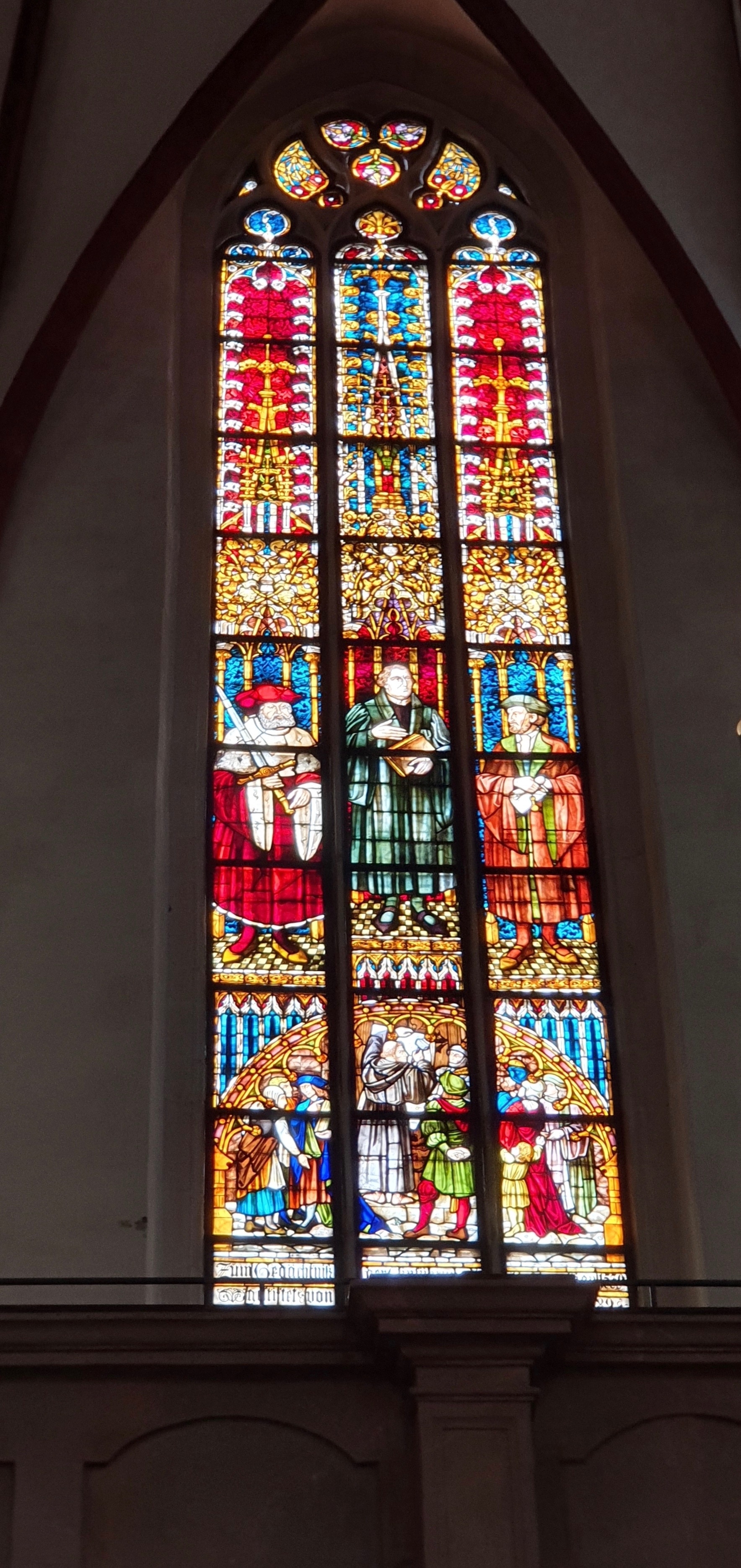 Martin.Luther - Stained glass window of Thomaskirche-Leipzig